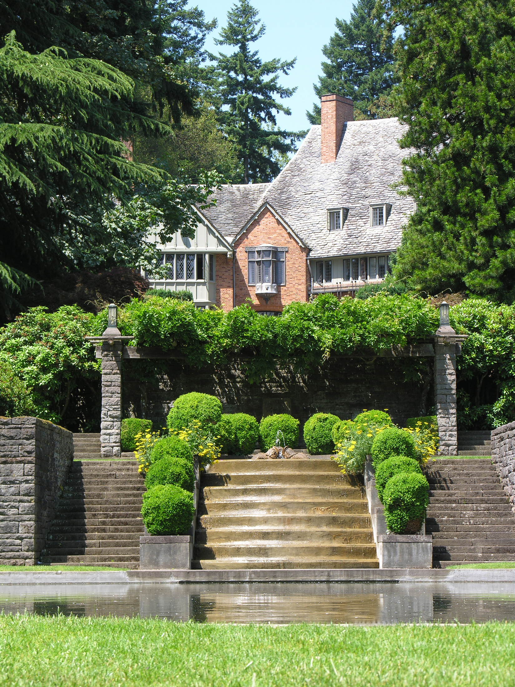 Once the center of Lloyd Frank’s (as in Meier & Frank) estate, this is now the administration building at Lewis & Clark College.